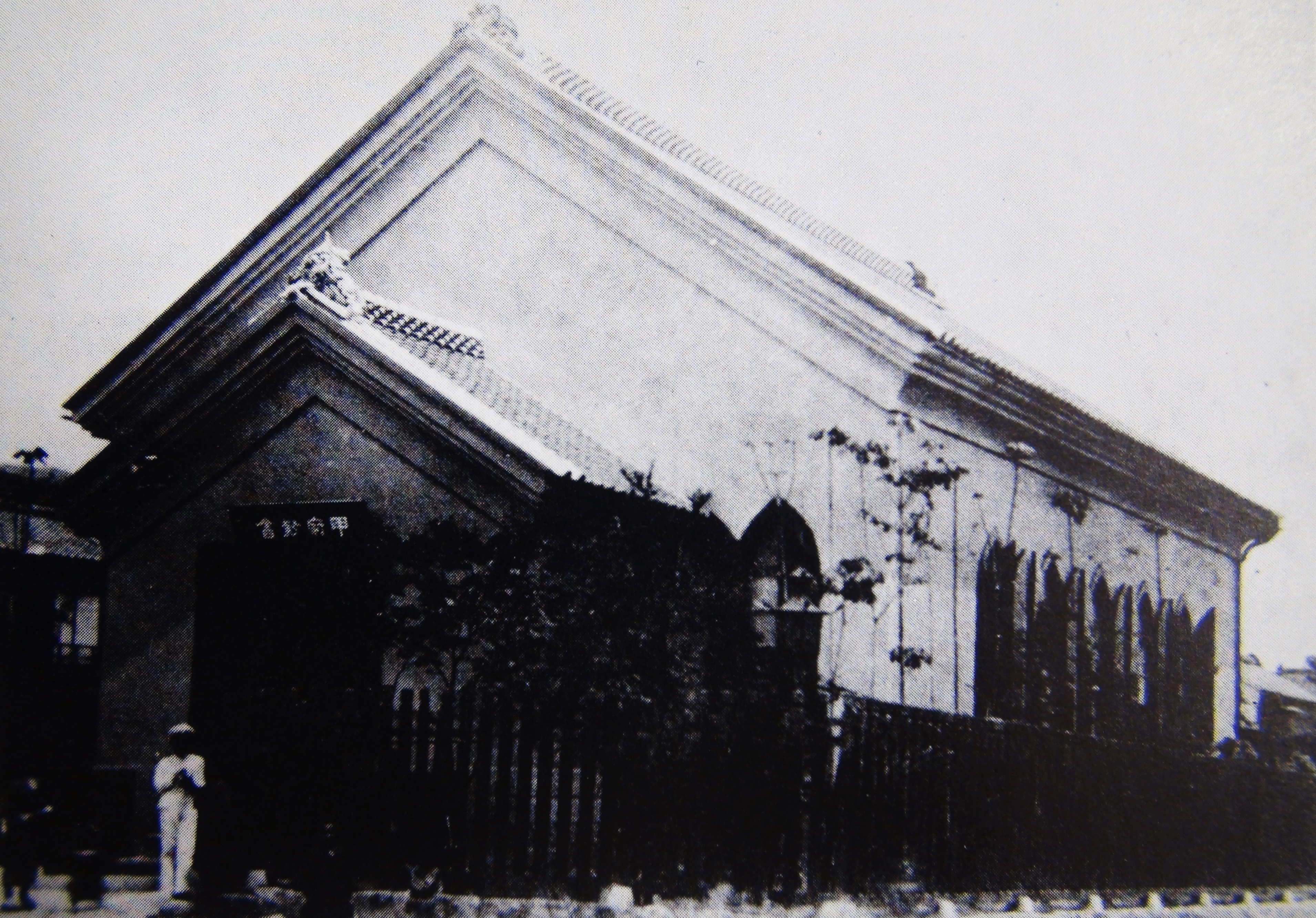 Kofu Christ Church. United Church of Christ in Japan. Circa 1892